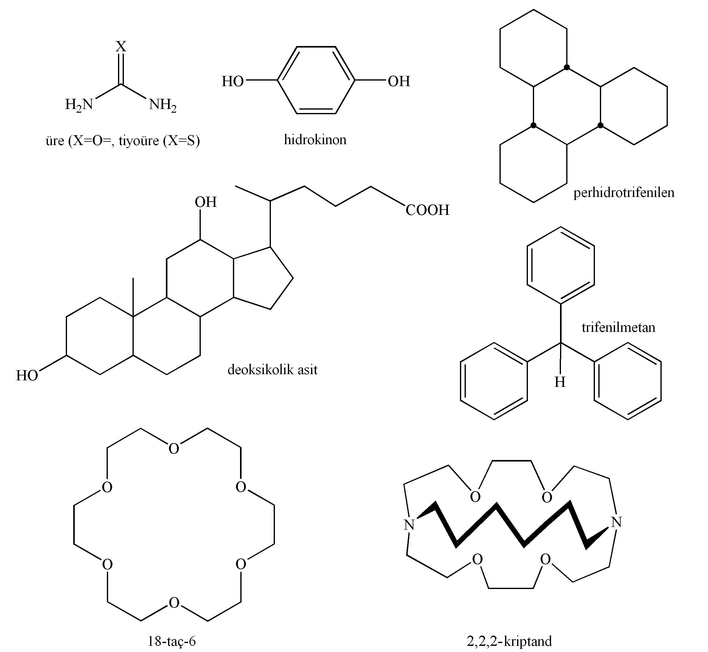 Examples of chemical structures of clathrate compounds